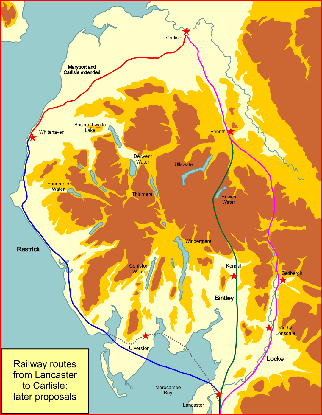 Diagram showing nineteenth century counter-proposals for a railway route from Lancaster to Carlisle, Cumbria, England